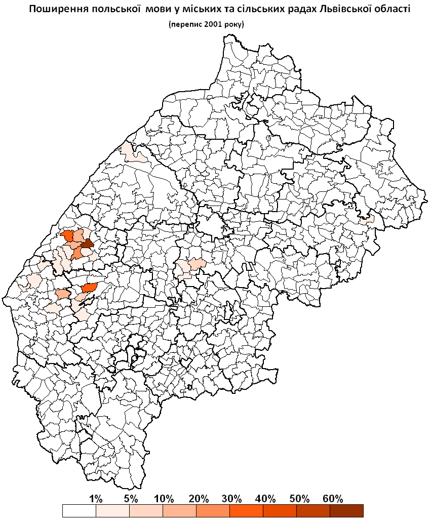 Polish as native language in Lviv oblast of Ukraine according to 2001 census